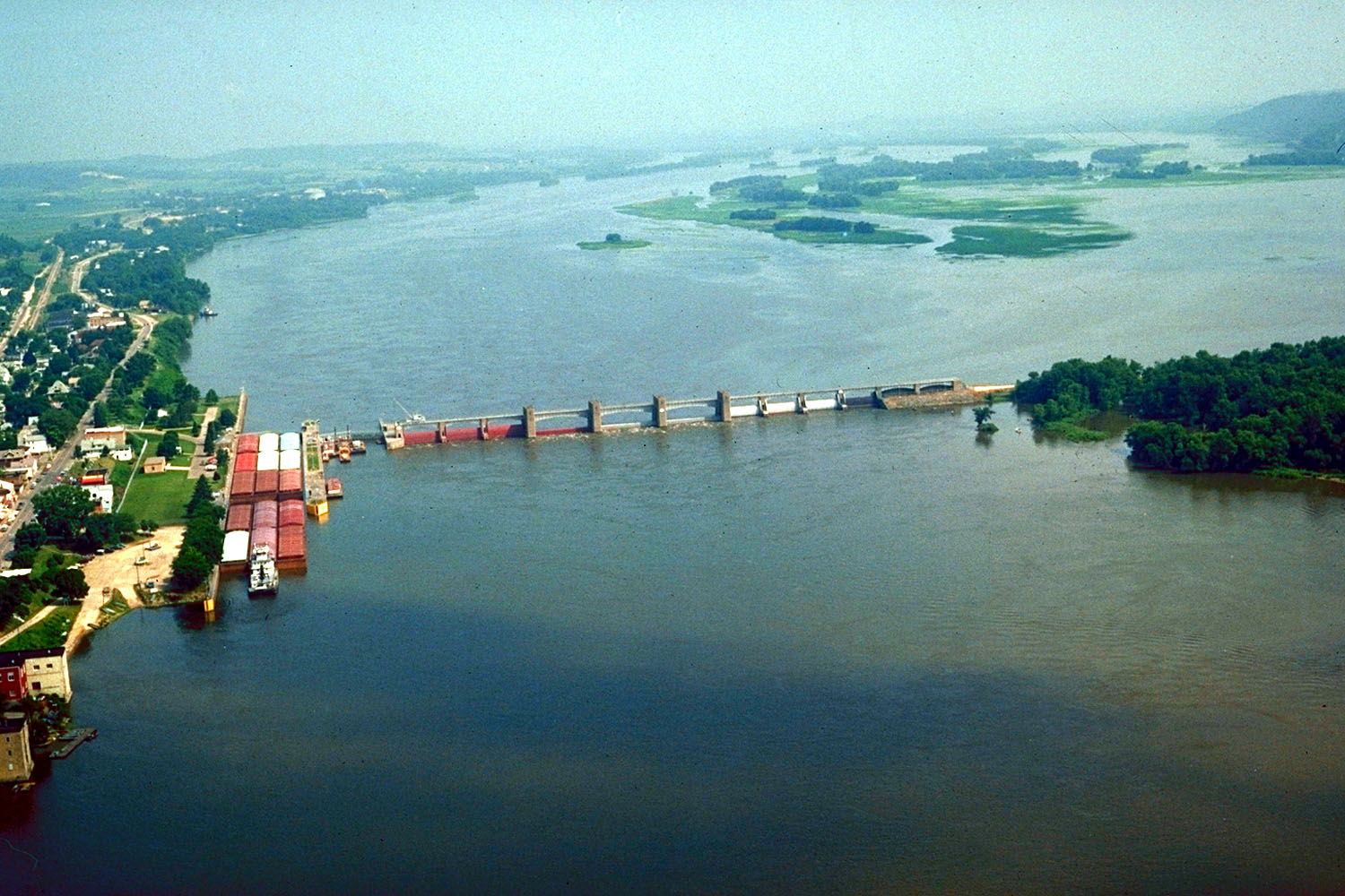 Aerial view of Lock and Dam 12, located on the Mississippi River, Bellevue, Iowa.